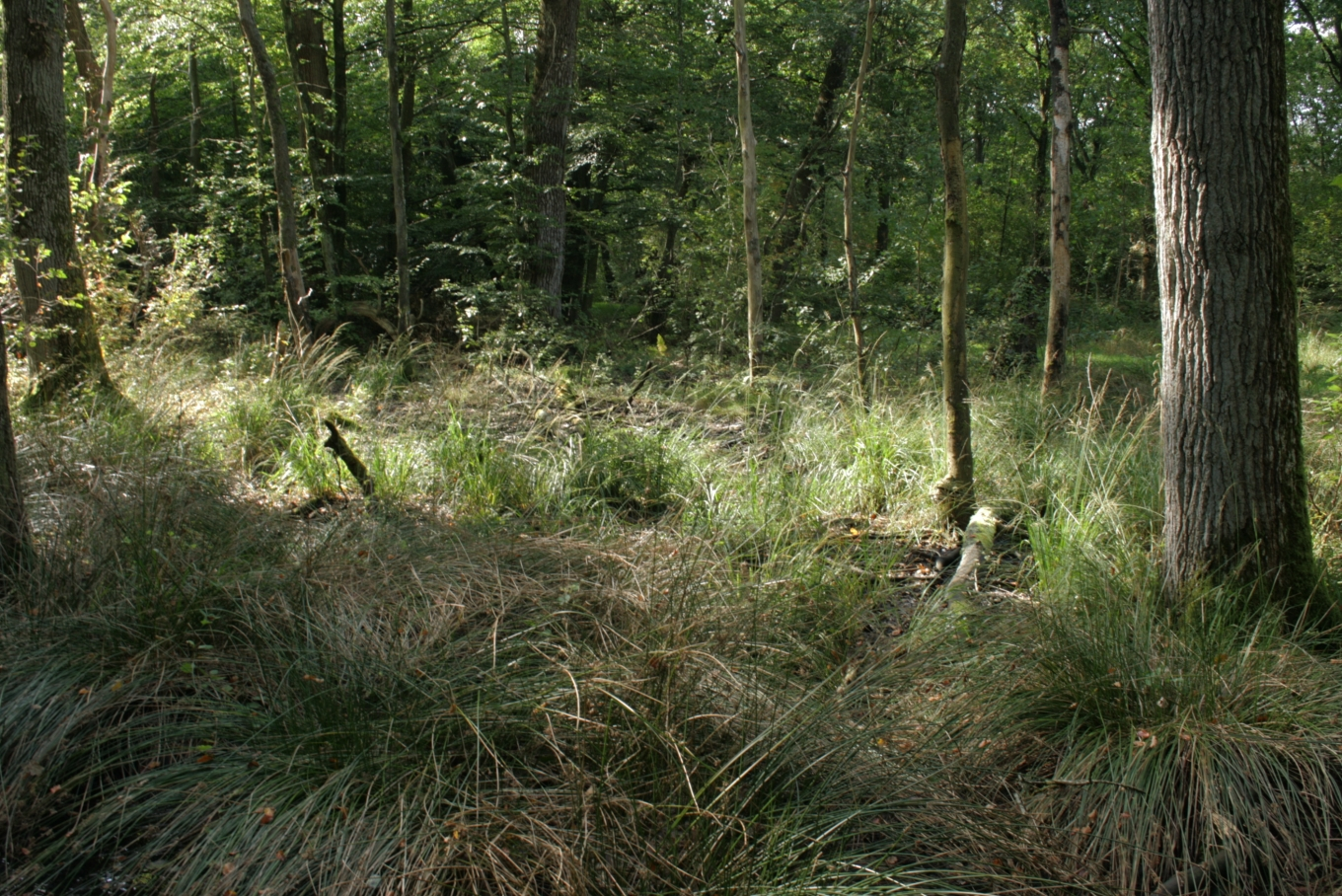 Draved Skov is one of the few Danish natural forests. Here you can see a part of the mature forest.